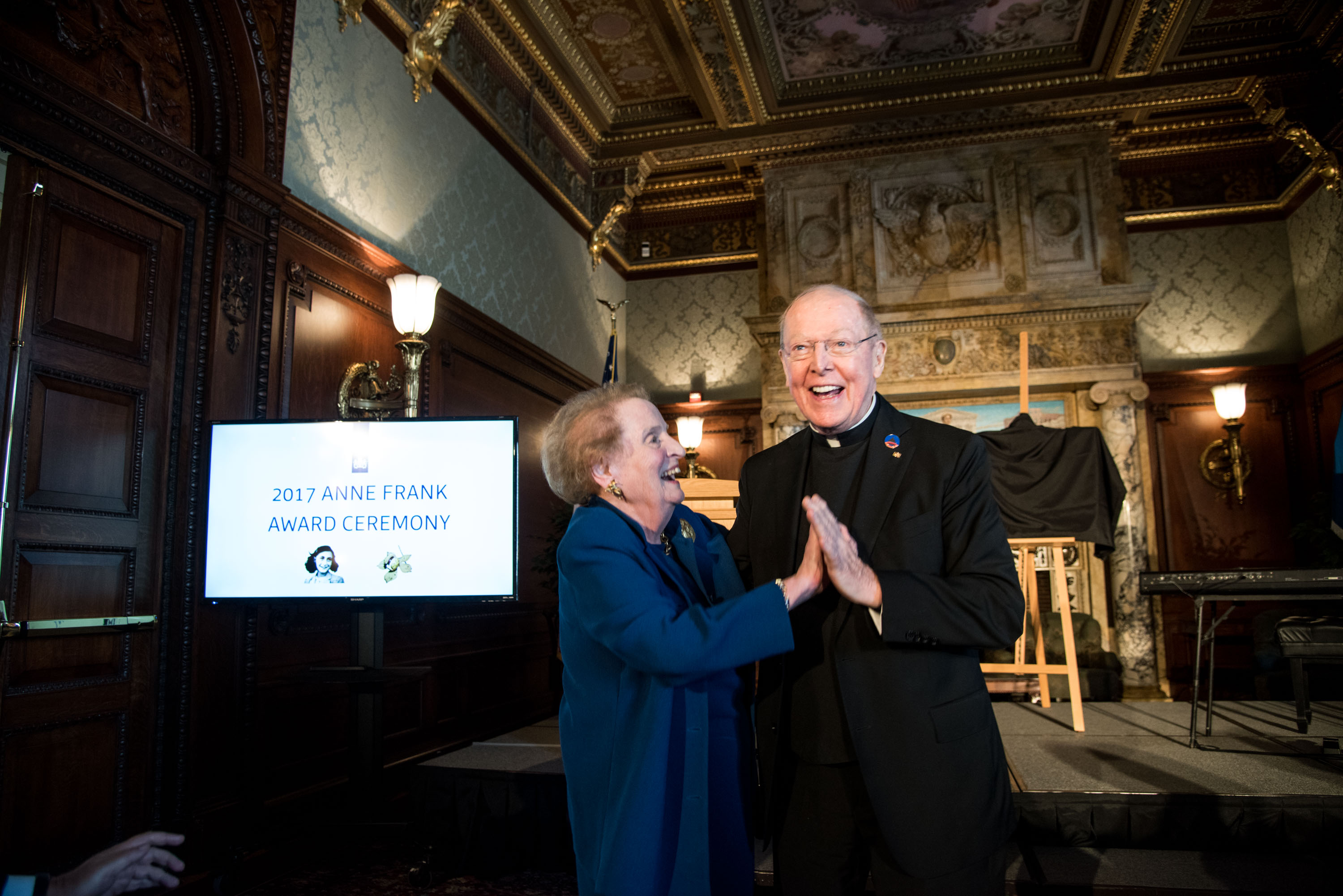 Anne Frank Awards, 09-14-2017, Library of Congress, Washington DC, photos: Stephen Voss